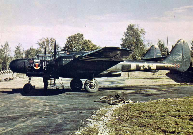 P-61 in 1944 in support of D-Day (Courtesy: USAF)